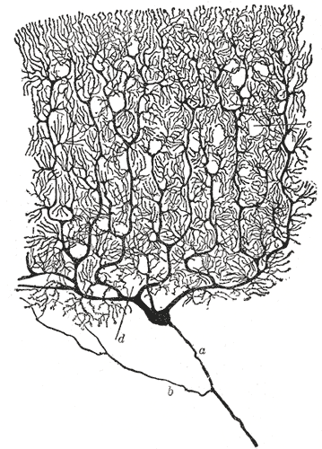 Camara lucida drawing of a Purkinje cell in the cat's cerebellar cortex, by Santiago Ramón y Cajal. Legend: (a) axon (b) collateral (c) dendrites. Contents 1 Automatically converted to PNG 1.1 Previous file history 2 Licensing 3 Original upload log Automatically converted to PNG The PNG crusade bot automatically converted this image to the more efficient PNG format. The image was previously uploaded as "PurkinjeCellCajal.gif". Previous file history 17:41:47, 21 January 2006 (UTC) . . Rsabbatini (Talk